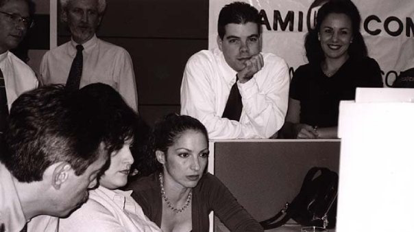 picture of Jeffrey Peterson and singer Gloria Estefan. It was as a live chat with Gloria's fans at the offices of the Miami Herald/1999.